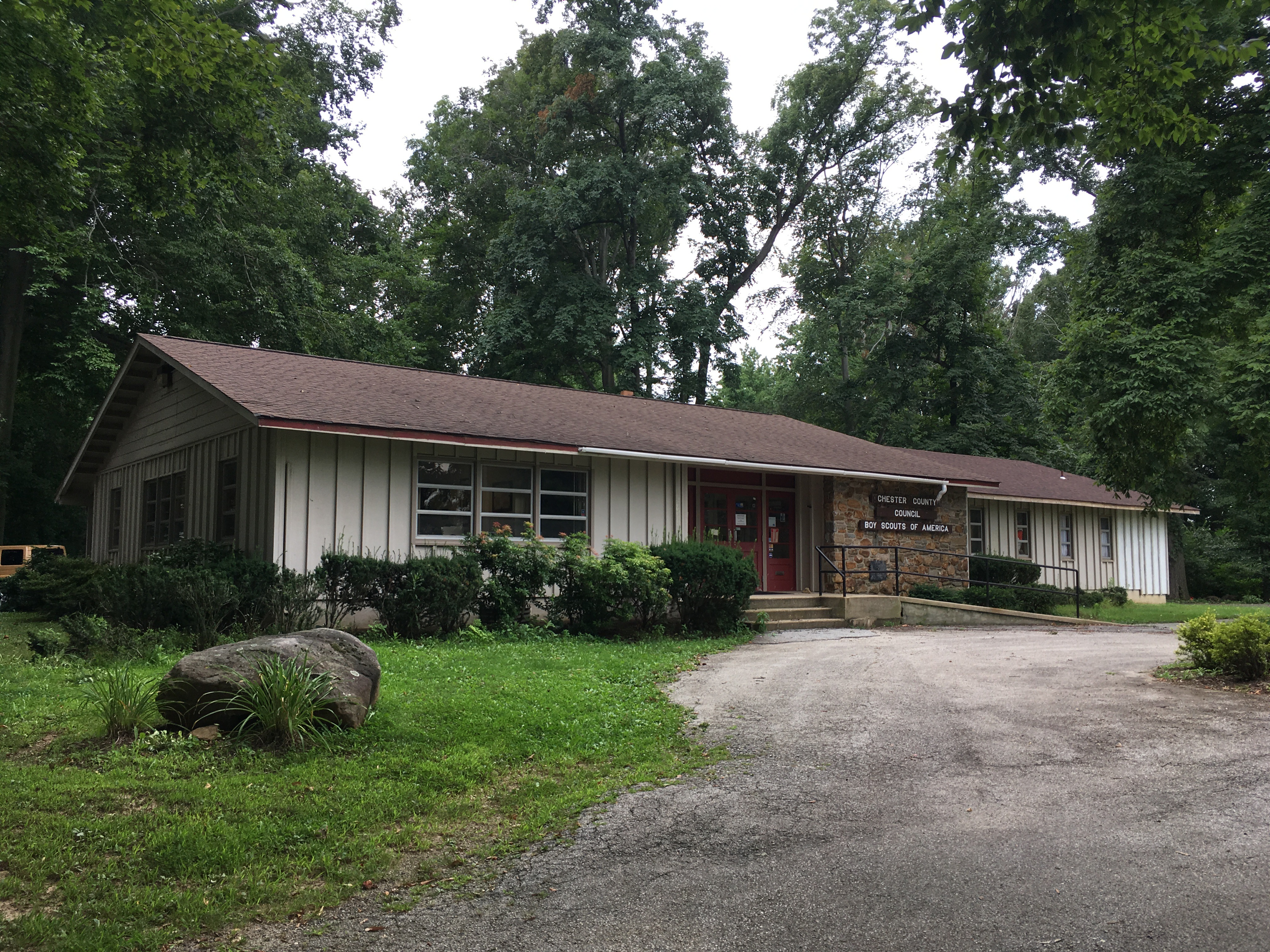 Chester County Council